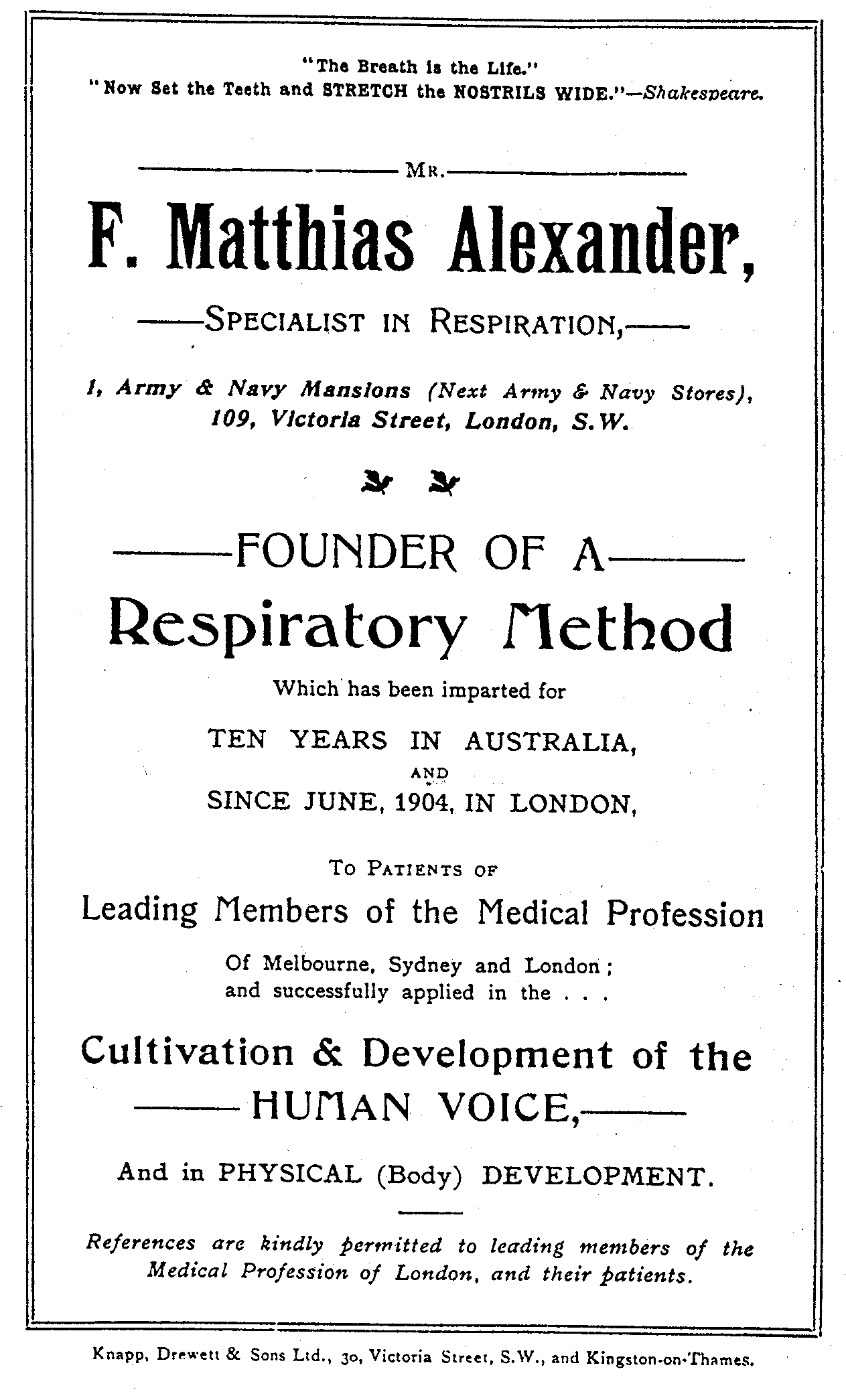 Must have been published between 1904 (when FM arrived in the UK) and 1911 when he moved to a different address than that given on the poster